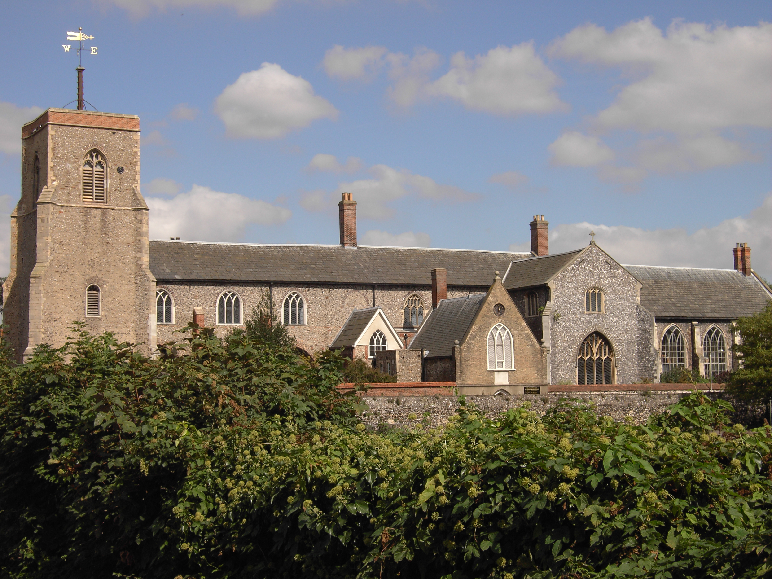 St Helen's, Bishopgate, Norwich. Taken on the 2006 Sponsored Bike Ride for The Norfolk Churches Trust. View over hedges to the church and tower.